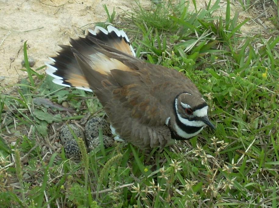 This is a picture of a Killdeer guarding four eggs. The picture was taken at a local cemetery in Durham, North Carolina, USA.